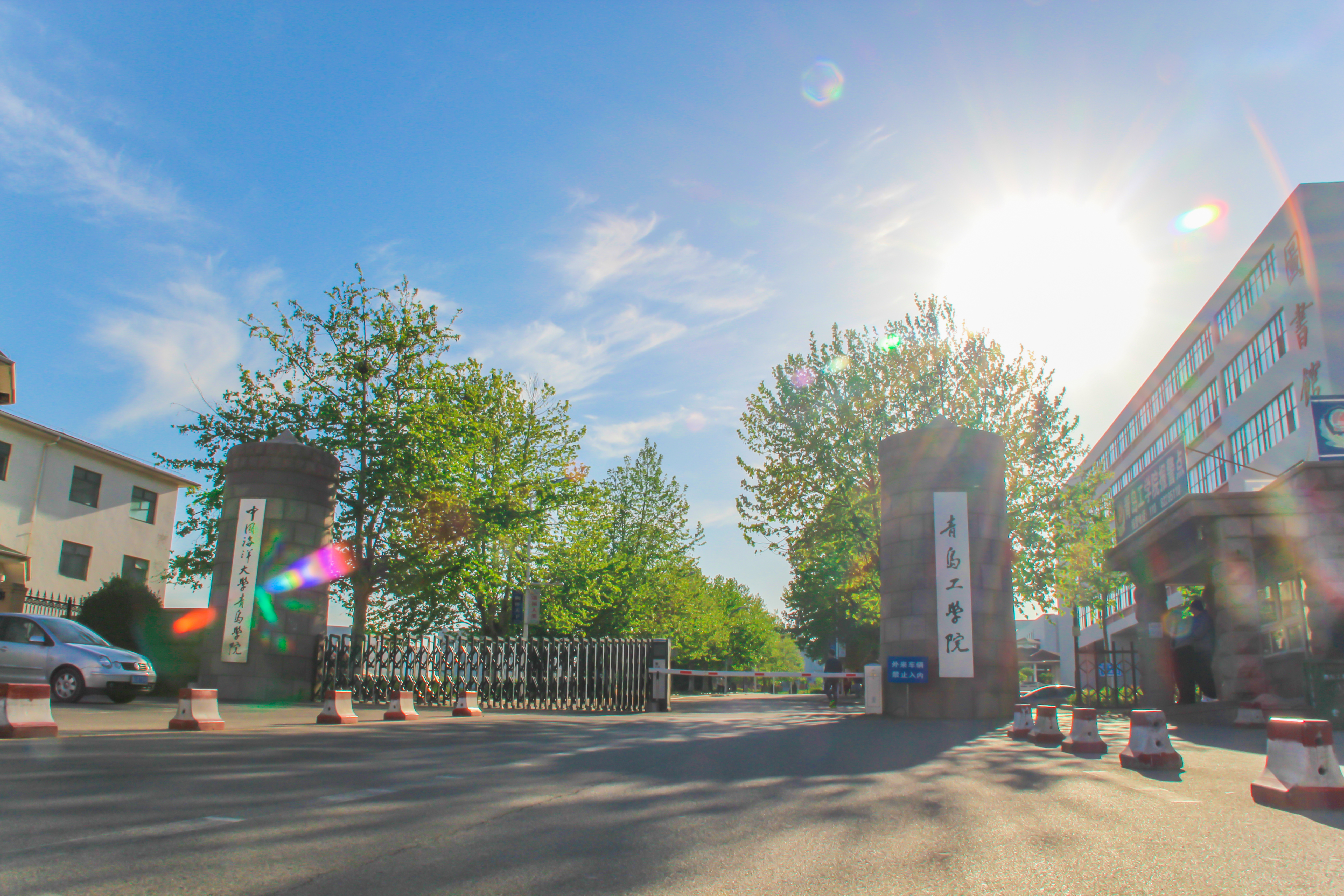 Qingdao University of Technology eastern gate